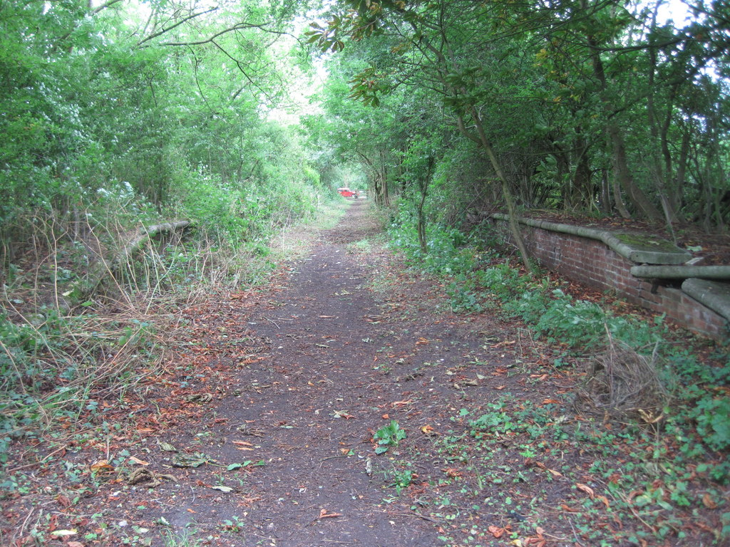 Foggathorpe railway station (site), Foggathorpe, East Riding of Yorkshire, England.Believed to have opened in 1848 by the North Eastern Railway on the line from Market Weighton to Selby, this station closed to passengers in 1954 and completely in 1964. View east towards Holme Moor and Market Weighton. The station building had been on the left, just before the road in the distance.